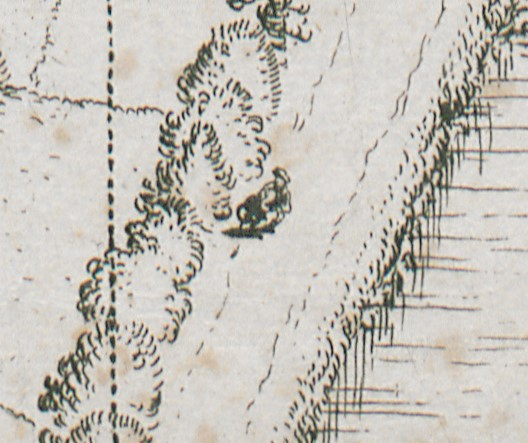 Detail of the map of Bruges created by Marcus Gheeraerts the Elder in 1562